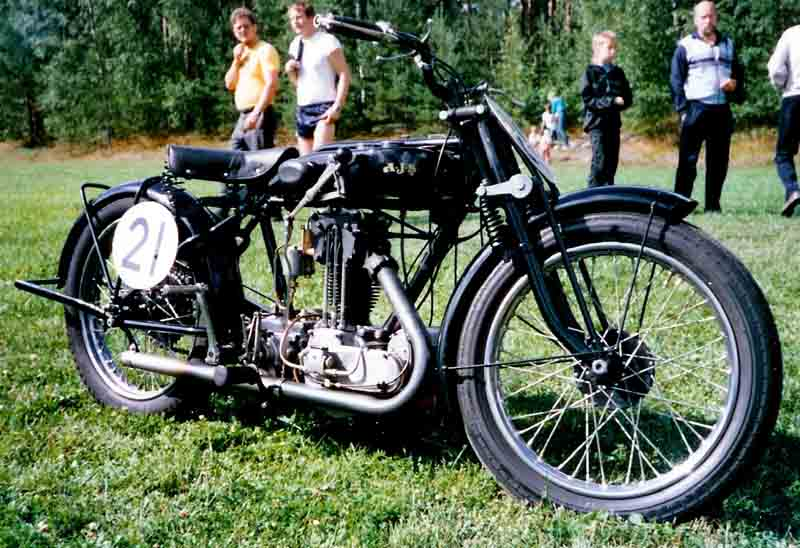 AJS H8 500 cc TV Racer 1927